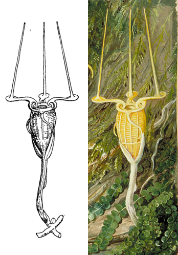 Combination of Odoardo Beccari's illistration and Marianne North's painting based on Becc., This shows only Thismia neptunis.